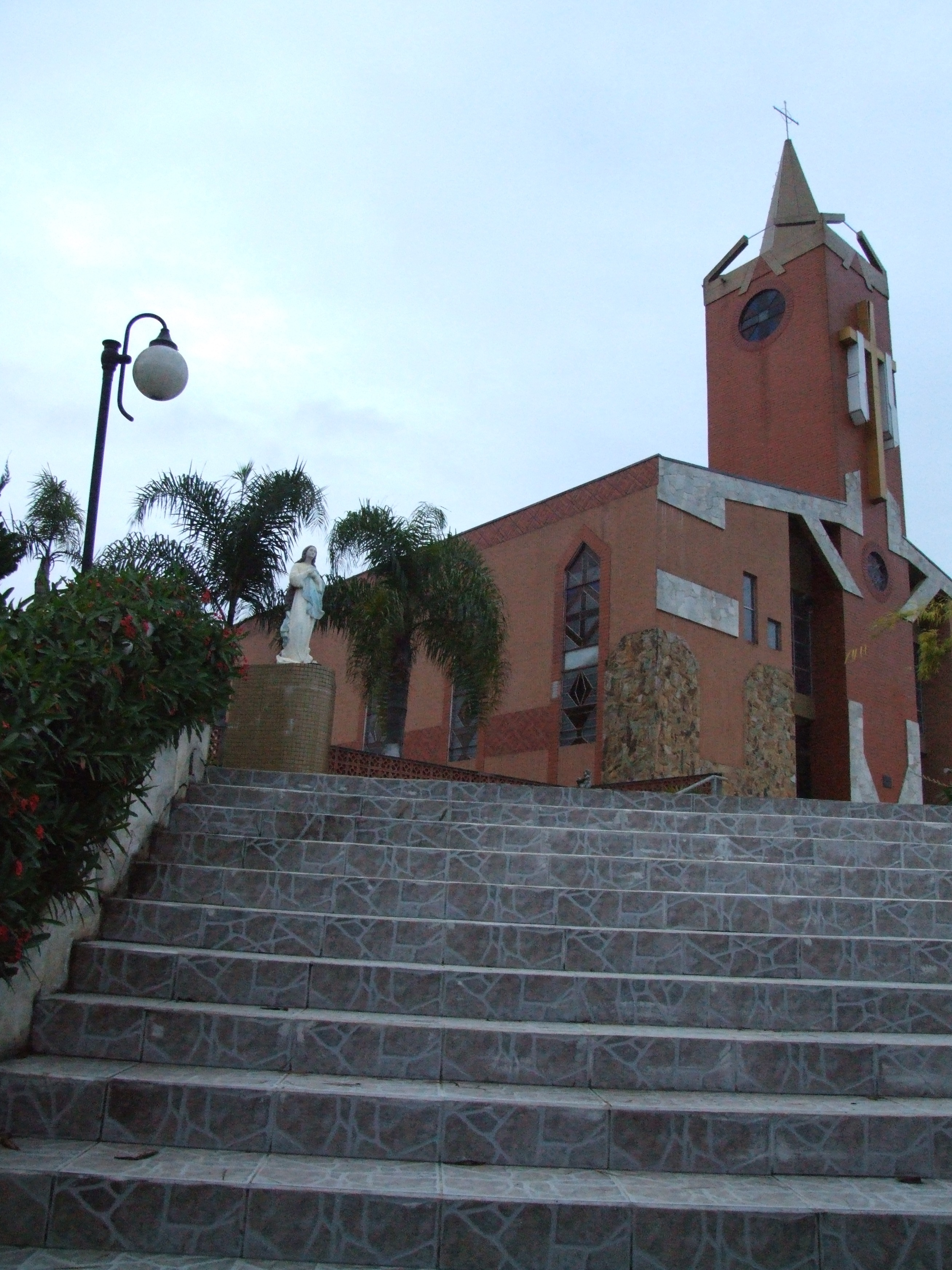 Church of Our Lady of the Conception, in Almirante Tamandaré, Paraná, Brazil